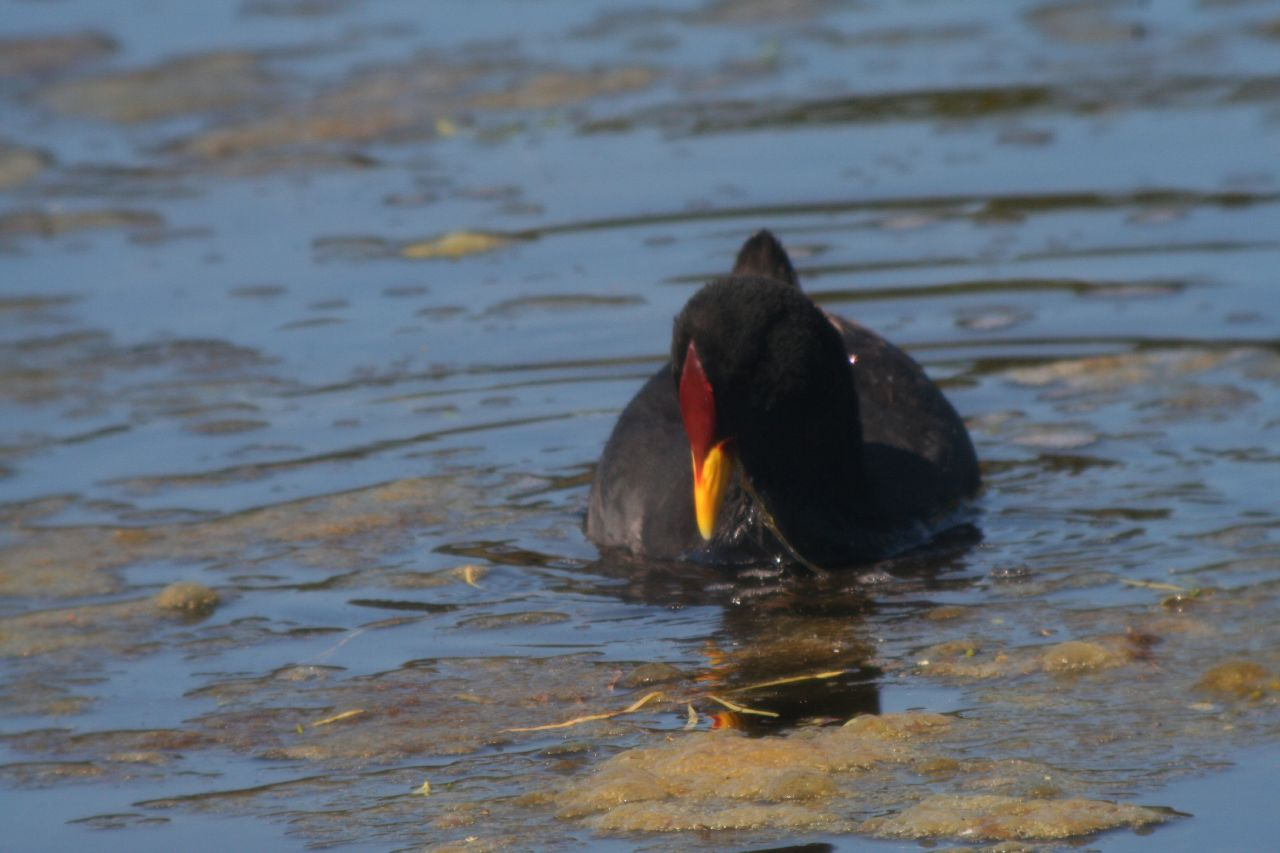 Red-fronted Coot (Fulica rufifrons)